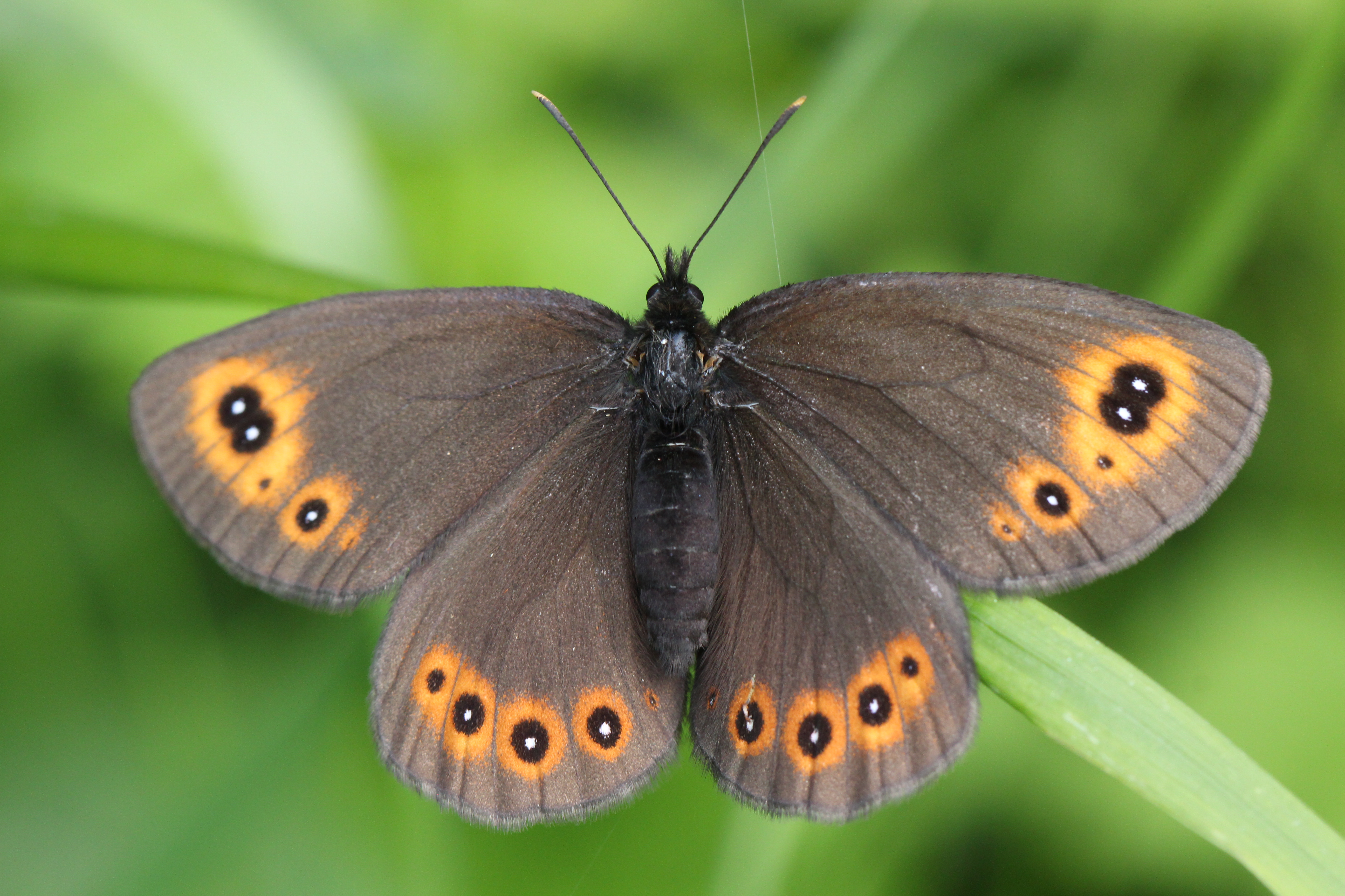 Woodland Ringlet